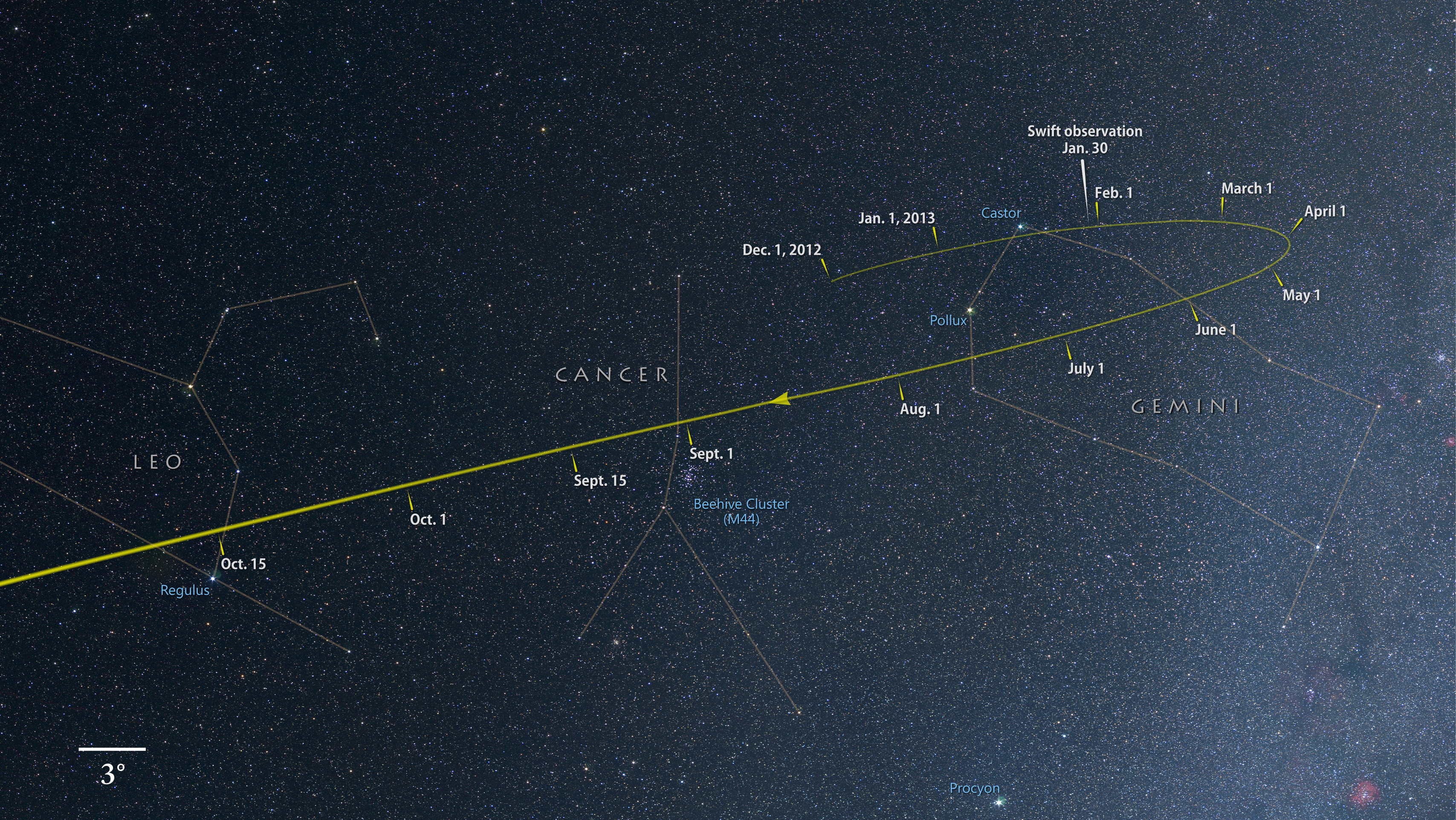 From December 2012 through October 2013, comet C/2012 S1 (ISON) tracks through the constellations Gemini, Cancer, and Leo as it falls toward the Sun.